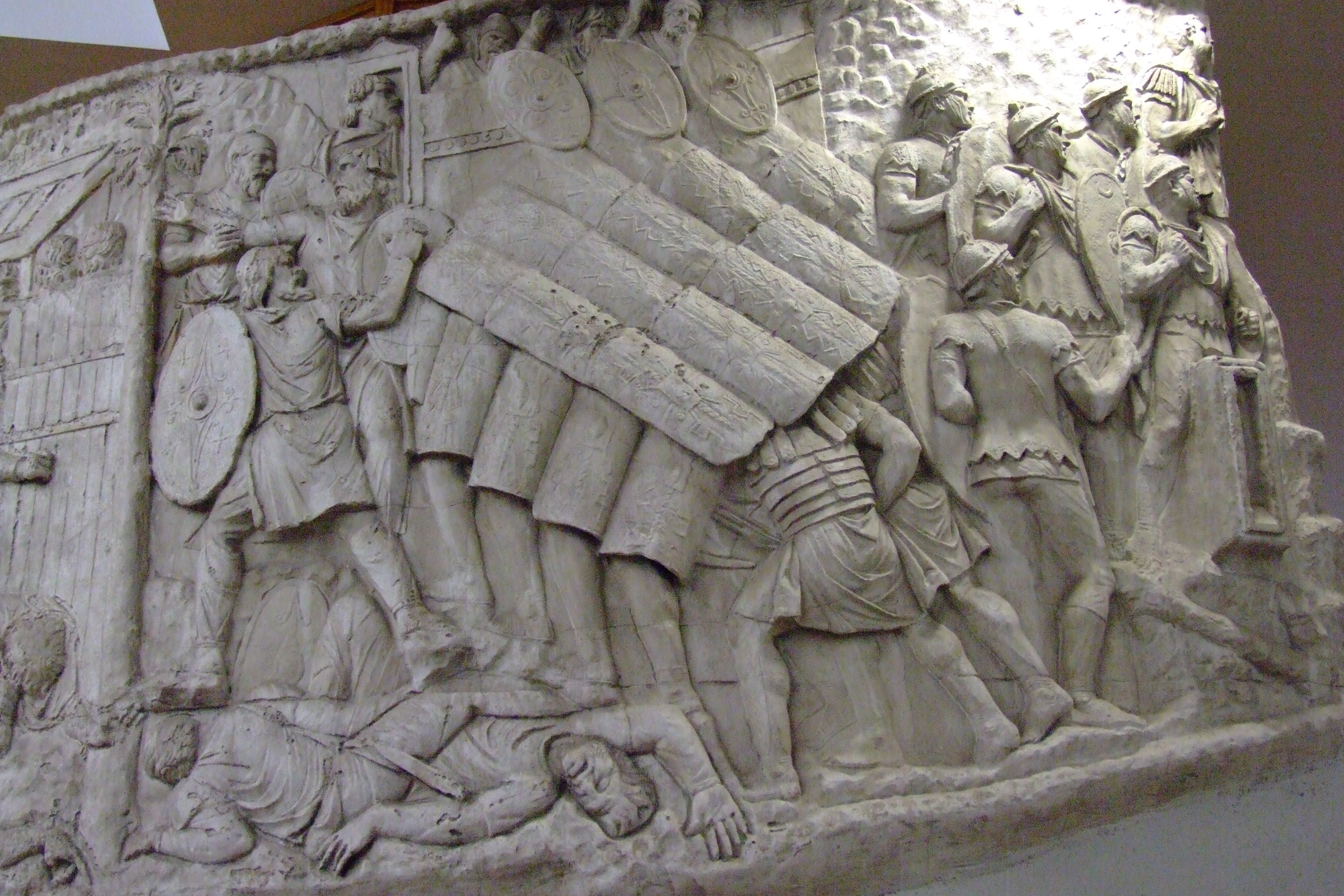 Roman turtle formation on trajan column